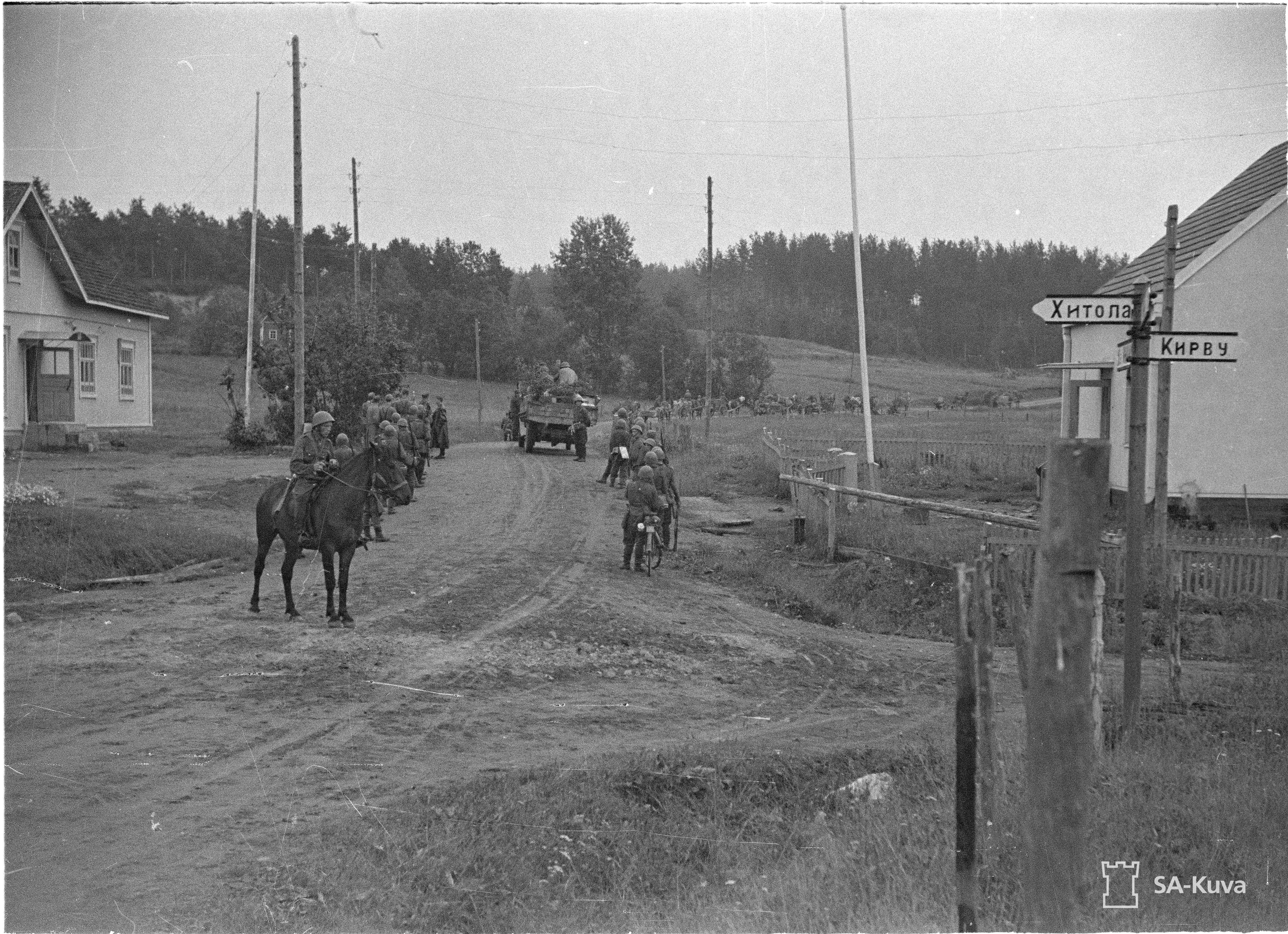 Ylkuunun tienristeys, johon vhn kuvan ottamisen jlkeen tuli tysosuma. Everstit Pajari ja Ekholm, sek elokuvaaja sotavirkailija E. Heino haavoittuivat.